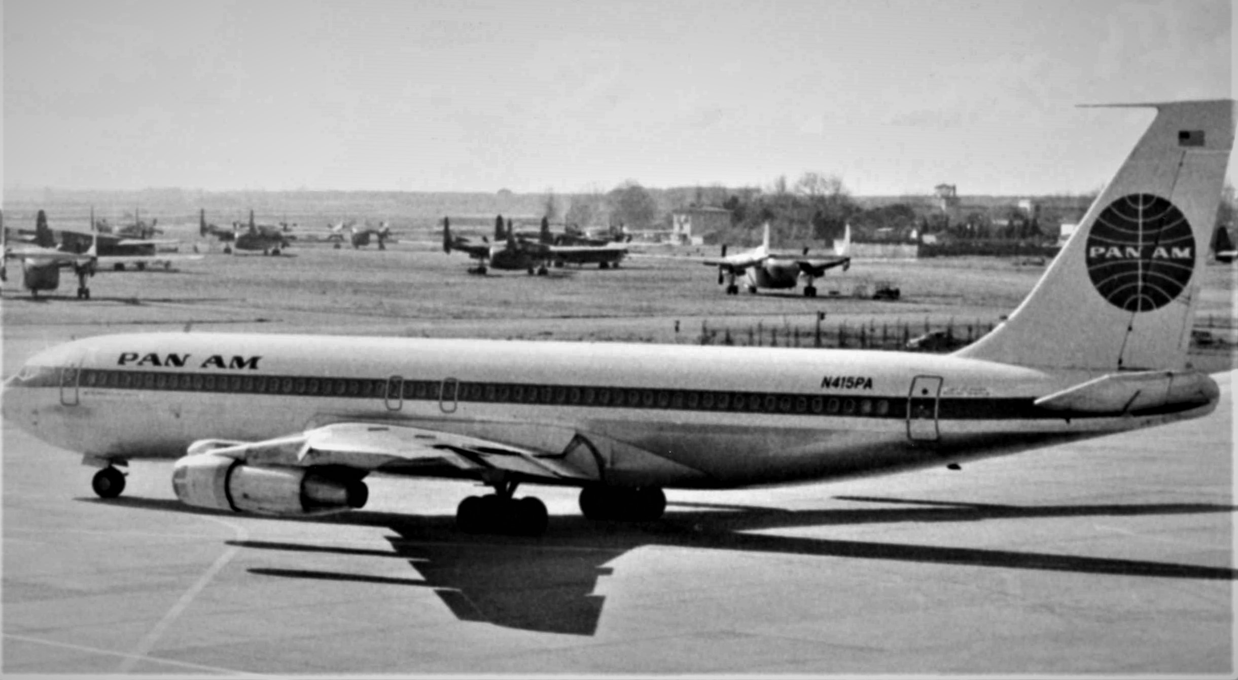 Pan American World Airways Boeing 707-321B, N415PA, c/n 18957/472, first flight 1966-02-07. Delivered to Pan Am in 1966-02-15 named “Clipper Monsoon”. Delivered in November 1978 to LAPSA as ZP-CCF. Delivered to Fuerza Aérea Paraguaya (FAP) in June 1994 as FAP-01 later 4001.